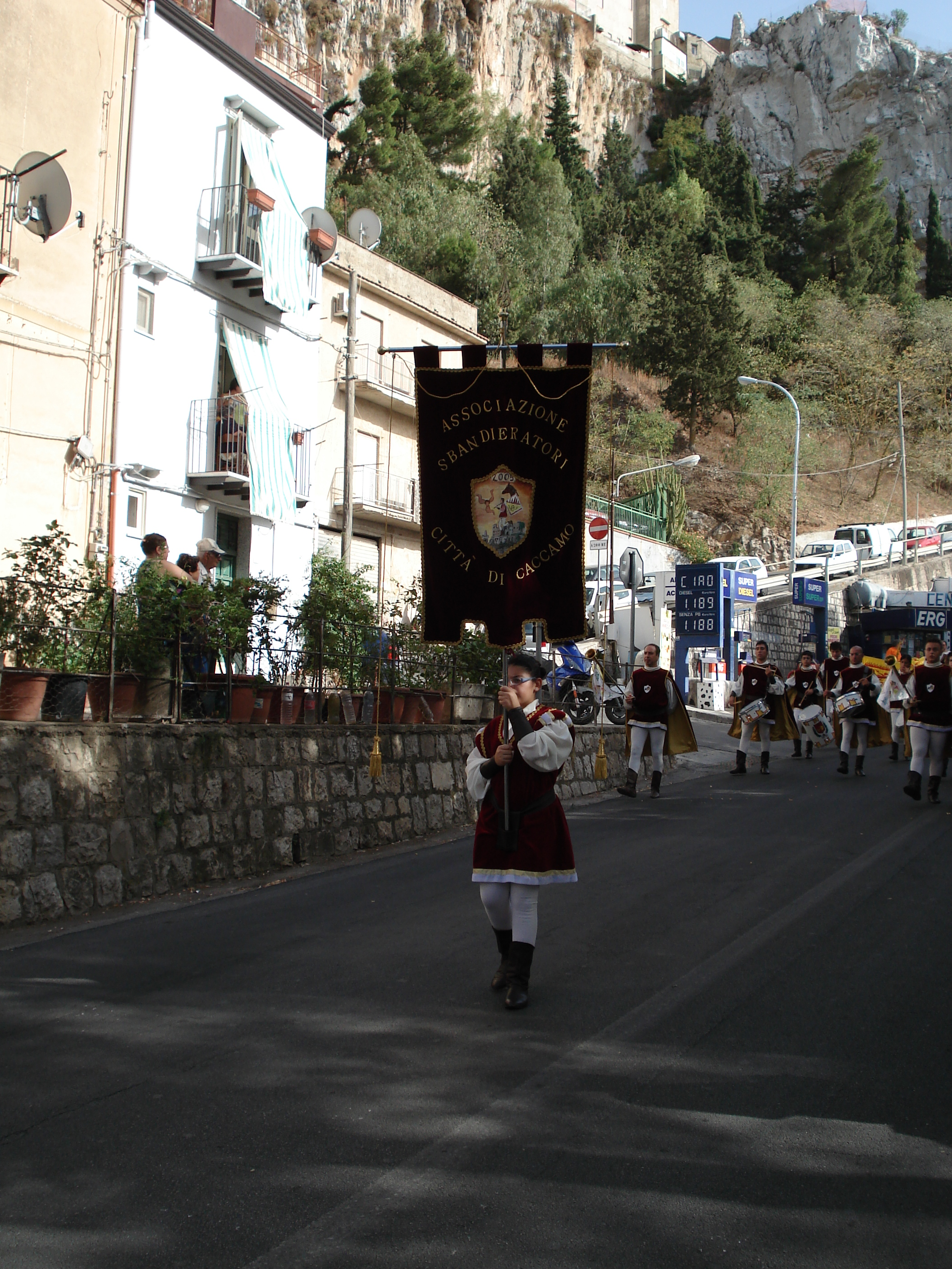 Caccamo Sicily Via liberta, near the entrance to the Castle on 8-34-07 'Festa del Patrono'